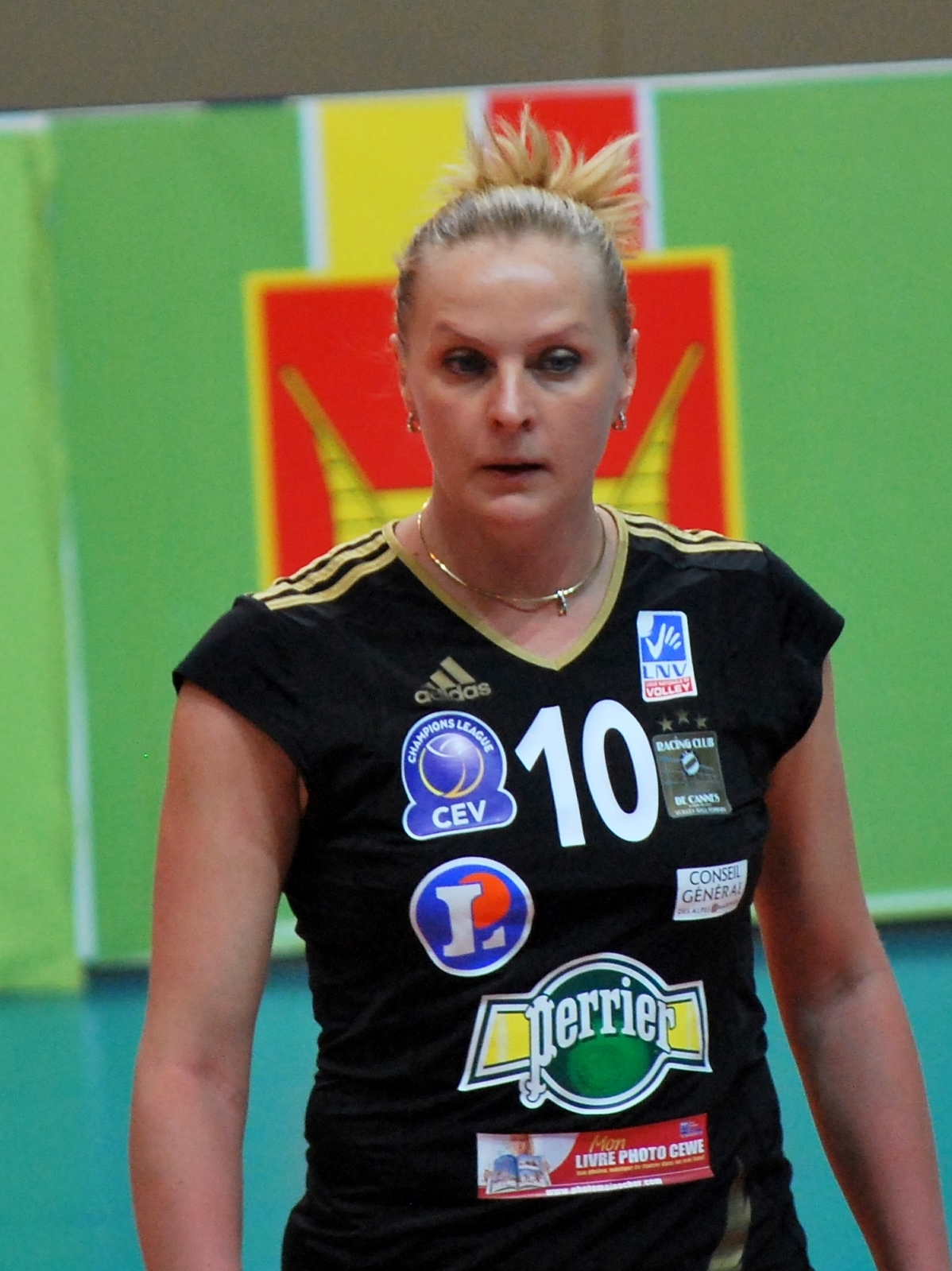 Alexandra Fomina, volleyball player from Ukraine